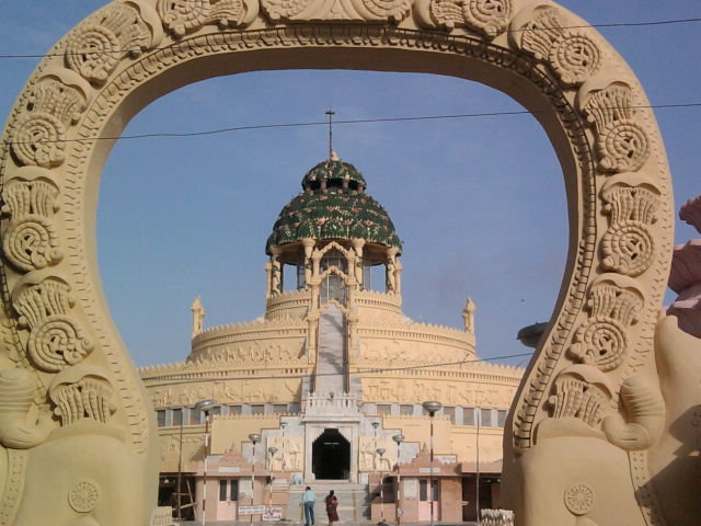 Palitana Jain Temples in Bhavnagar District of Gujarat India.